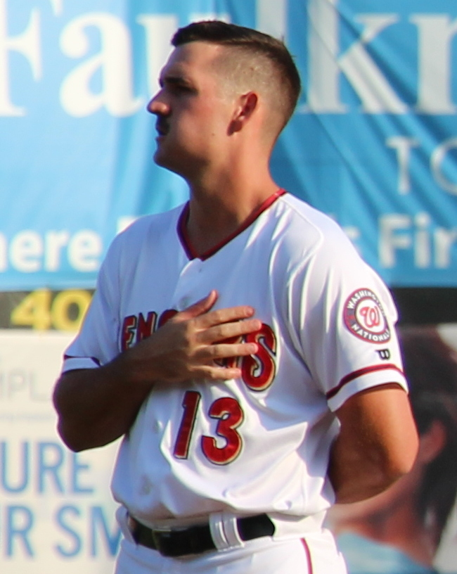 In celebration of our 100th year anniversary, patrons were invited to join us at the Harrisburg Senators Arena for Military Night on Jul. 16 at 6:30 p.m. to watch our very own assigned military throw not only the first pitch, but four more courtesy pitches at the Senators Baseball game against Akron Rubber Ducks. The Senators ended up winning the game with a grand slam!